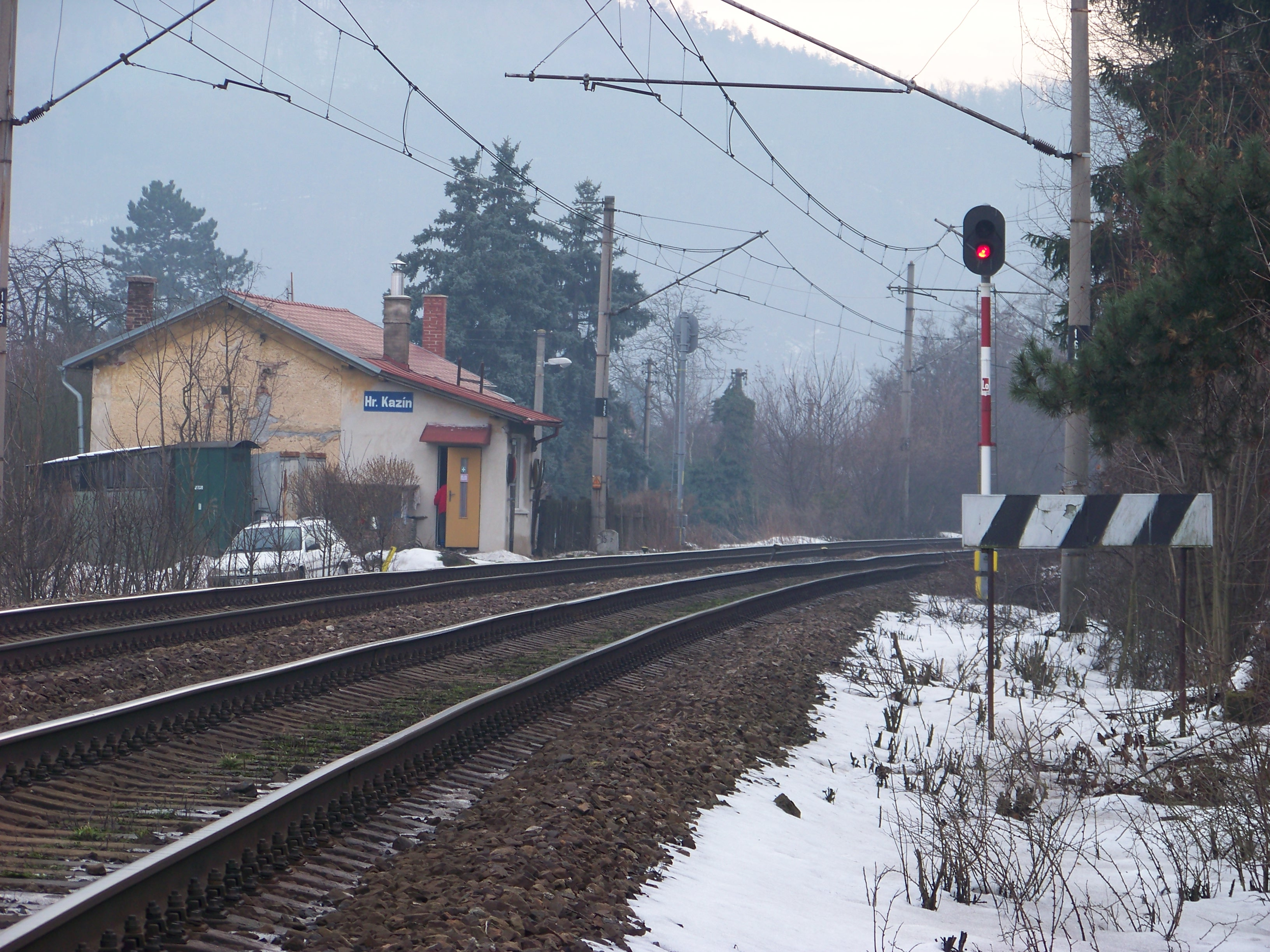 Černošice, Prague-West District, Central Bohemian Region, the Czech Republic. A railway.